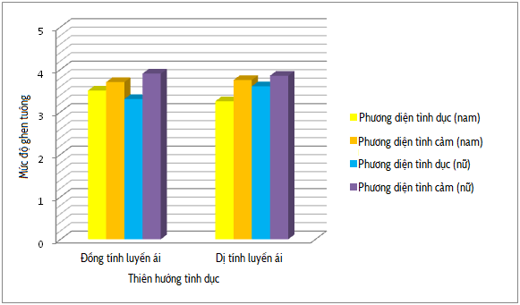 Emotional aspects of an unfaithful act are more important in instances of thinking of real infidelity as opposed to forced-choice method with hypothetical scenarios across both genders. Bởi Amberrr90 – Tác phẩm do chính người tải lên tạo ra, CC BY-SA 3.0